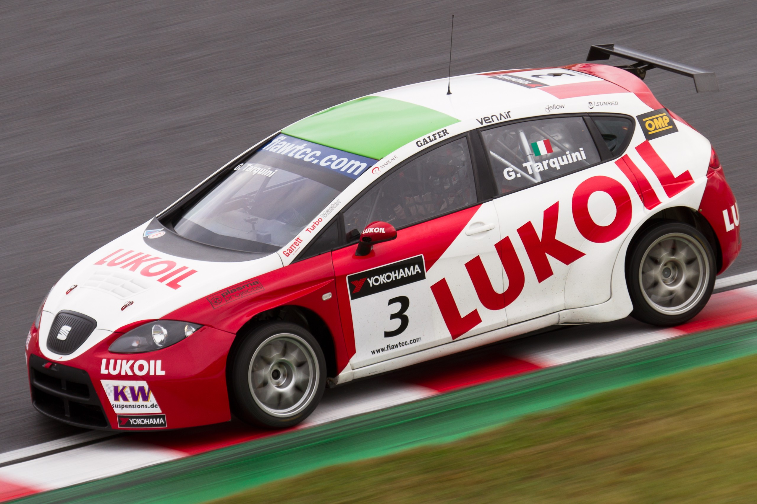 World Touring Car Championship 2011 Race of Japan: Gabriele Tarquini (Lukoil-SUNRED) during the 1st practice session on Saturday.